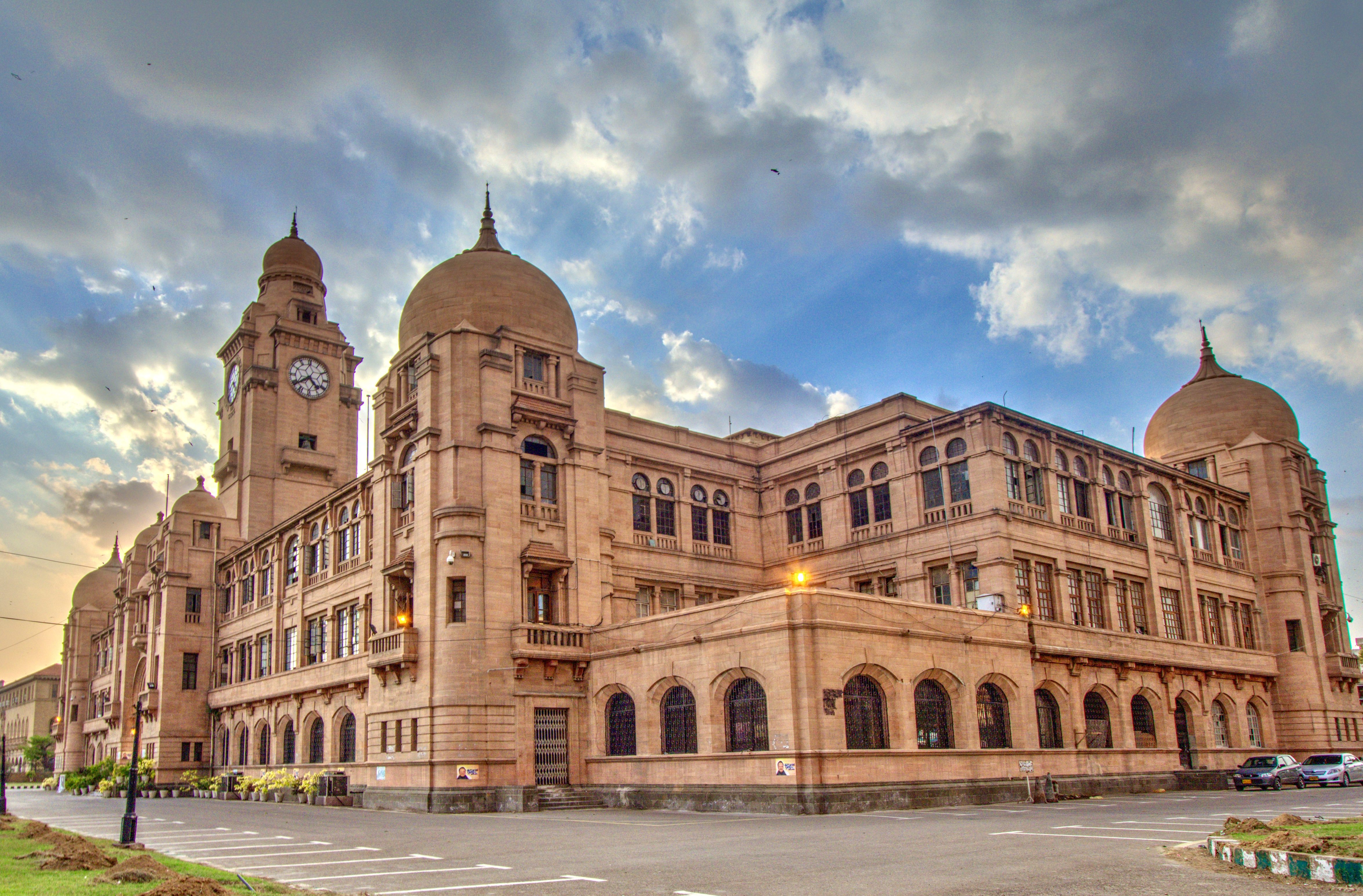 Karachi Municipal Corporation (KMC) Head Office This is a photo of a monument in Pakistan identified as the SD-P-16